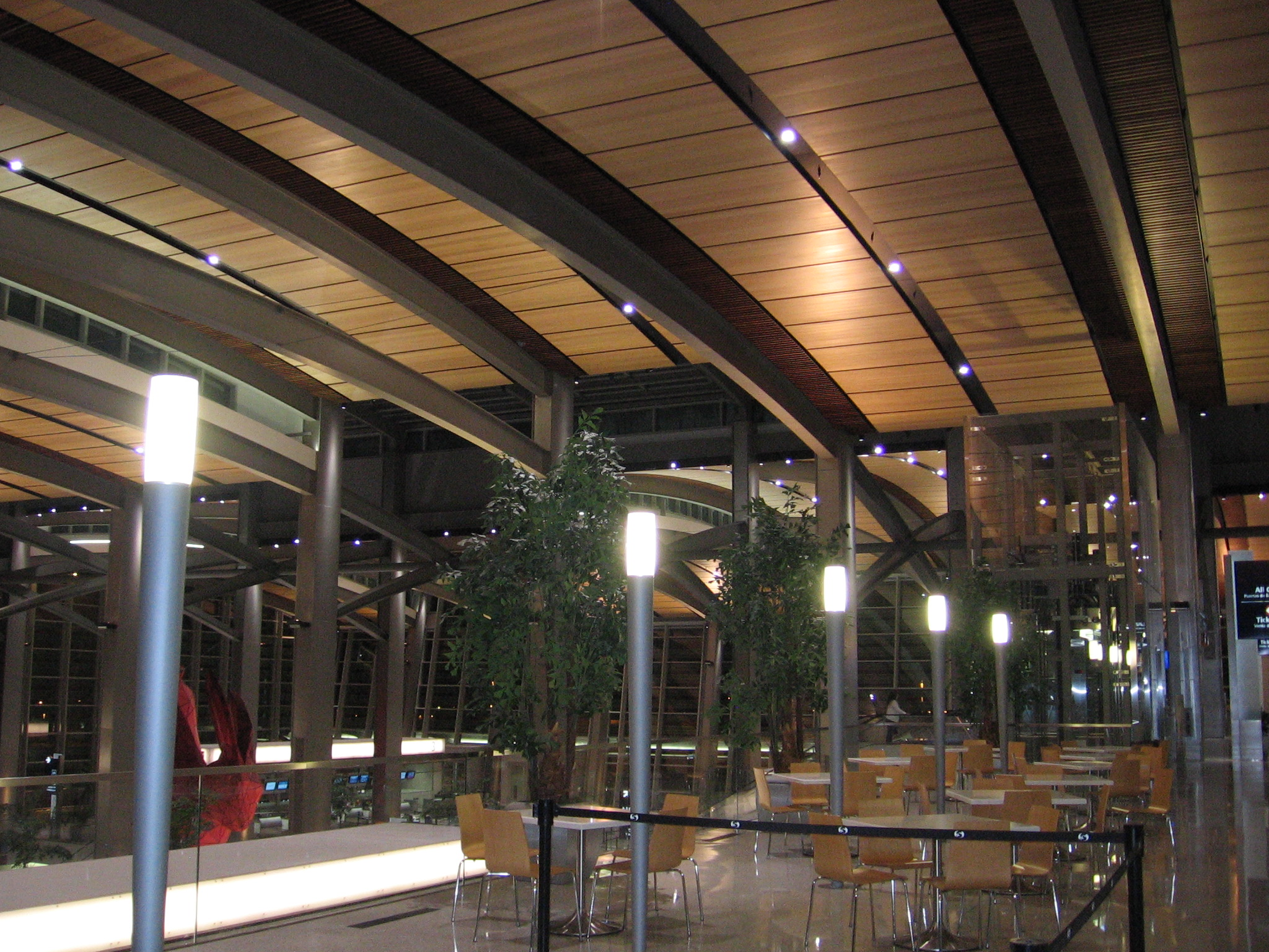 Interior of new Central Terminal B at the Sacramento International Airport in Sacramento County, California, USA.